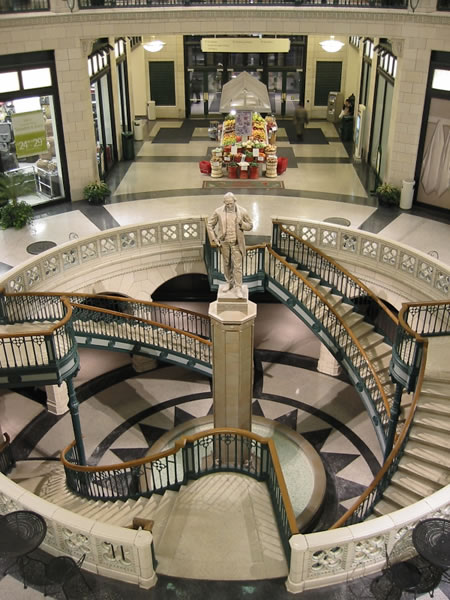 Rotunda of Plankinton Arcade (1916, Holabird & Roche), now part of Shops at Grand Avenue. Today, the stairs don't really lead to anything.pirouette